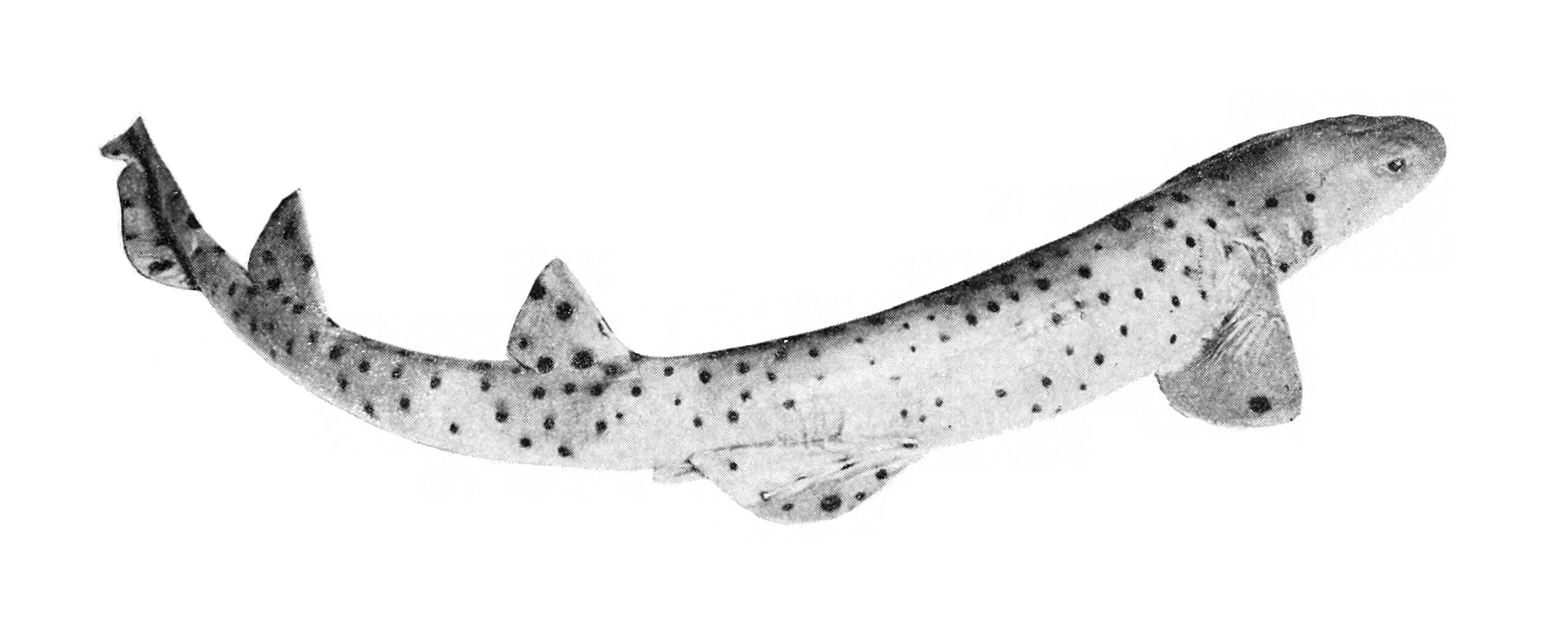 Rusty cat shark, Parascyllium ferrugineum.